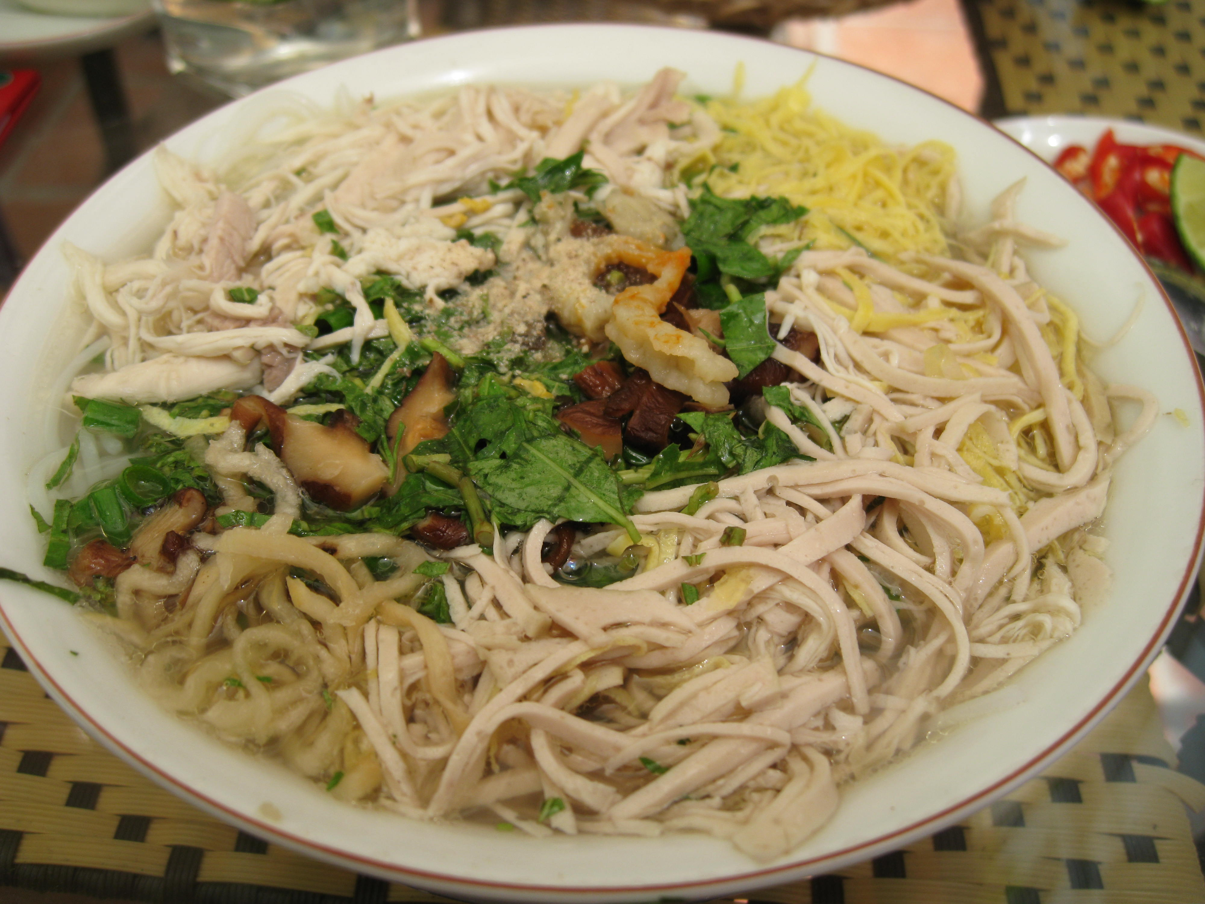 Soup made with shredded chicken meat, shredded fried egg, shredded steam pork cake, and various vegetables.